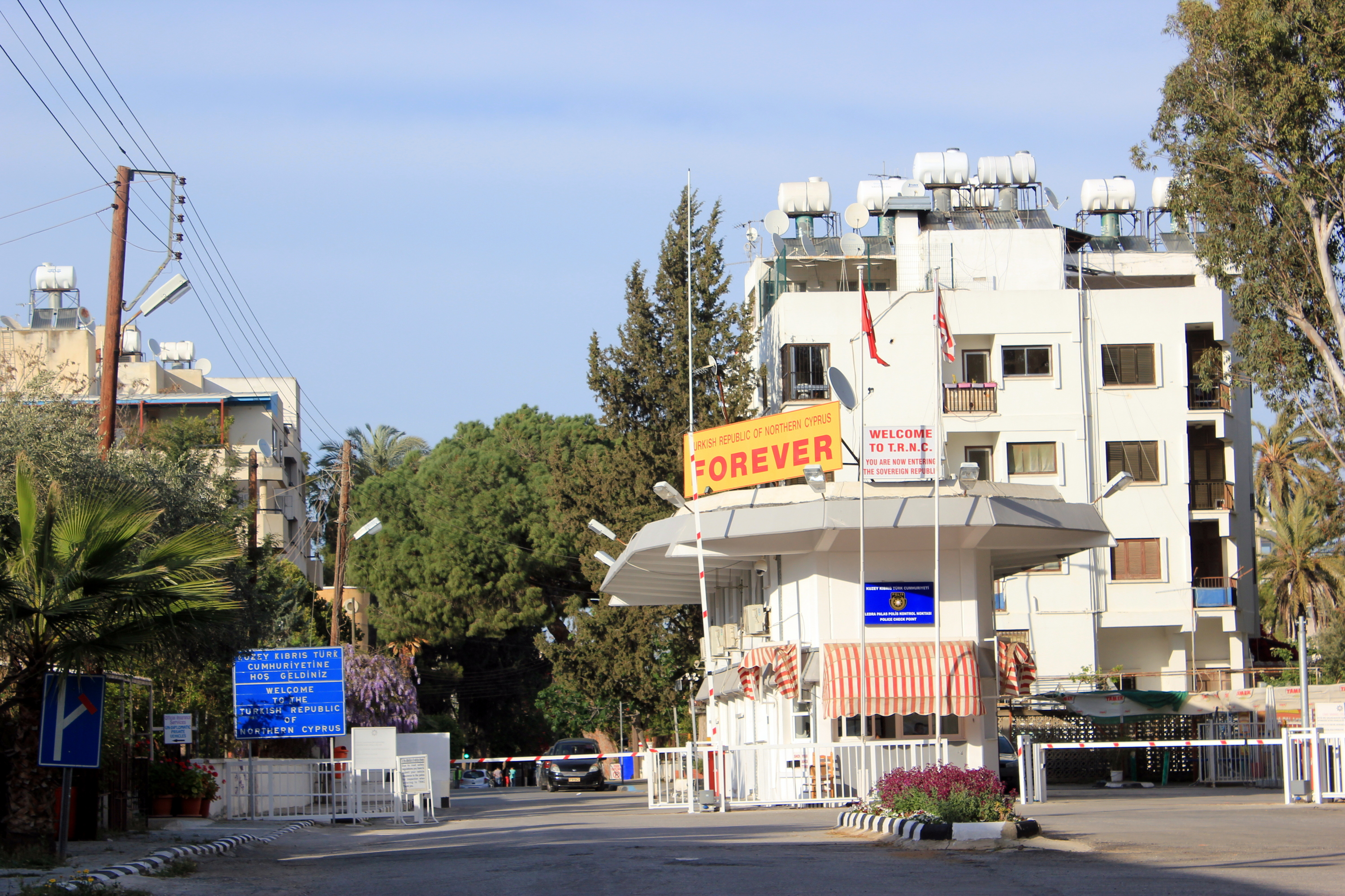 At the "Green Line" in Nicosia, Cyprus.